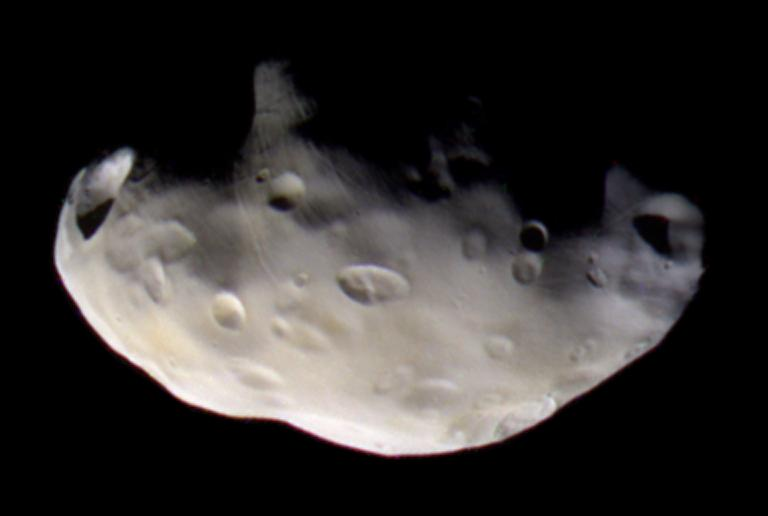 NASA description: Cassini acquired infrared, green and ultraviolet images on Sept. 5, 2005, which were combined to create this false-color view. The image was taken with the Cassini spacecraft narrow-angle camera at a distance of approximately 52,000 kilometers (32,000 miles) from Pandora and at a Sun-Pandora-spacecraft, or phase, angle of 54 degrees. Resolution in the original image was about 300 meters (1,000 feet) per pixel. The image has been magnified by a factor of two to aid visibility.